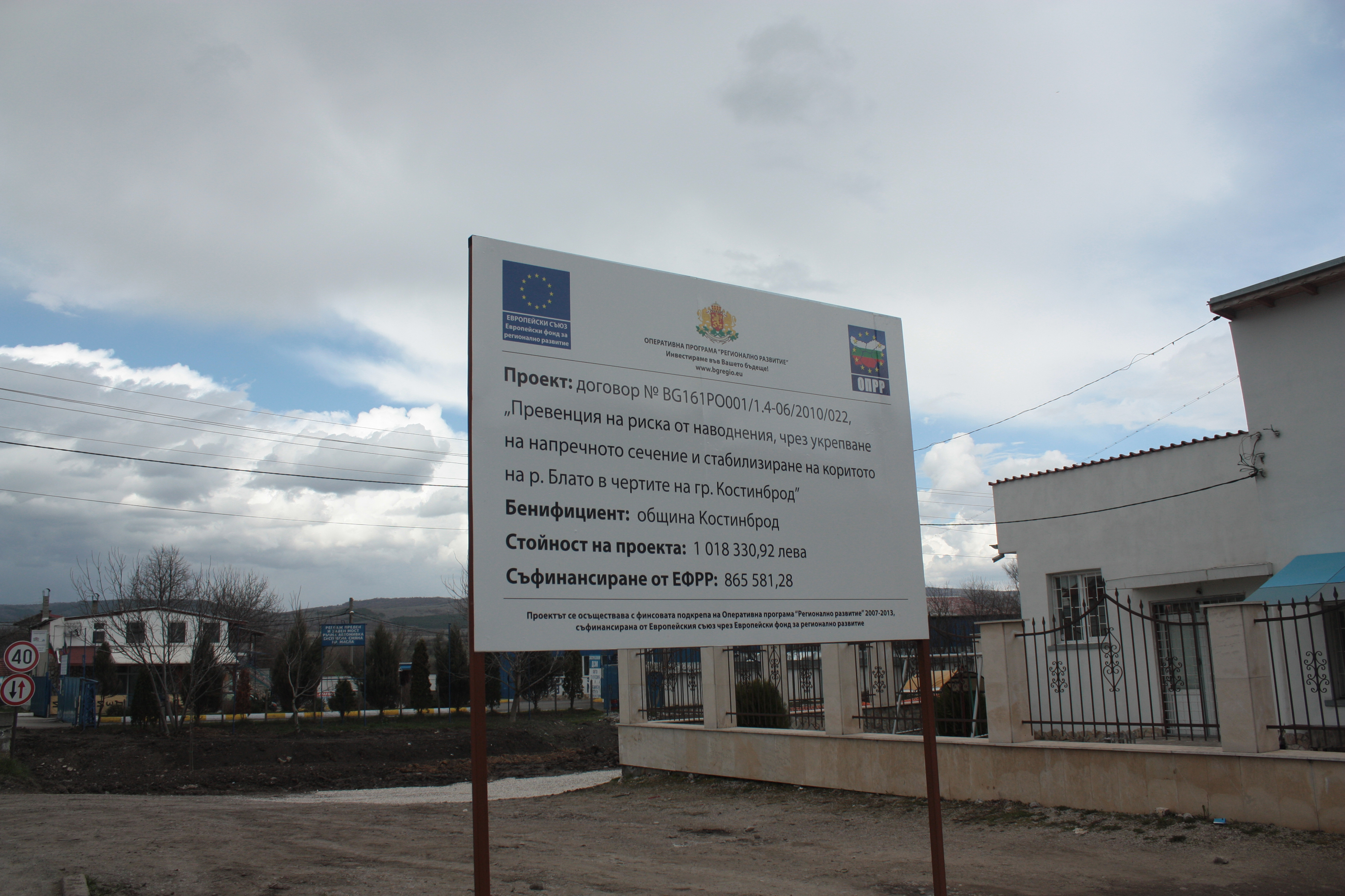 Board Announcing of the River Blato correction project in Kostinbrod, Bulgaria